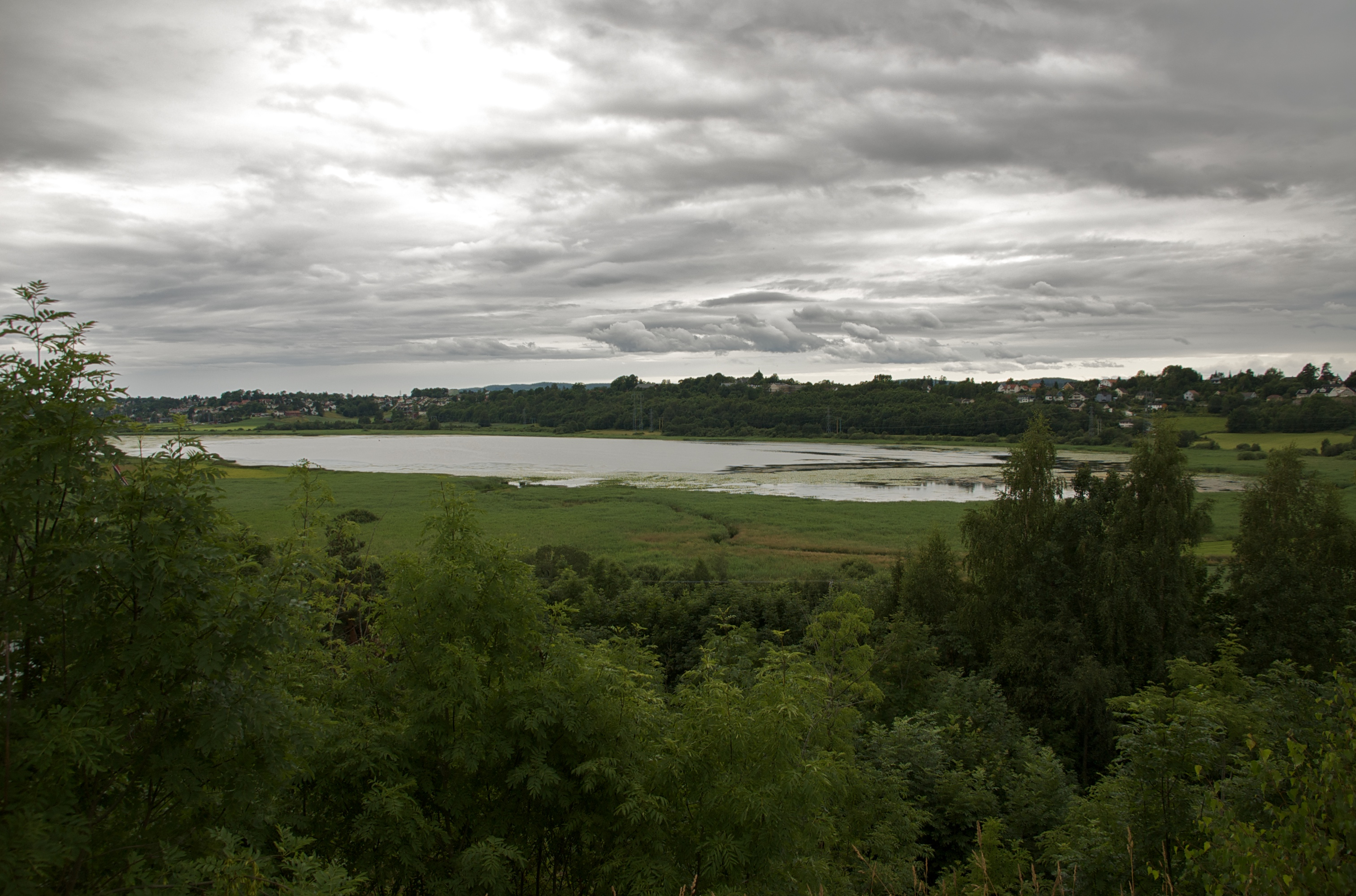 Børsesjø, a lake in Skien, Norway.